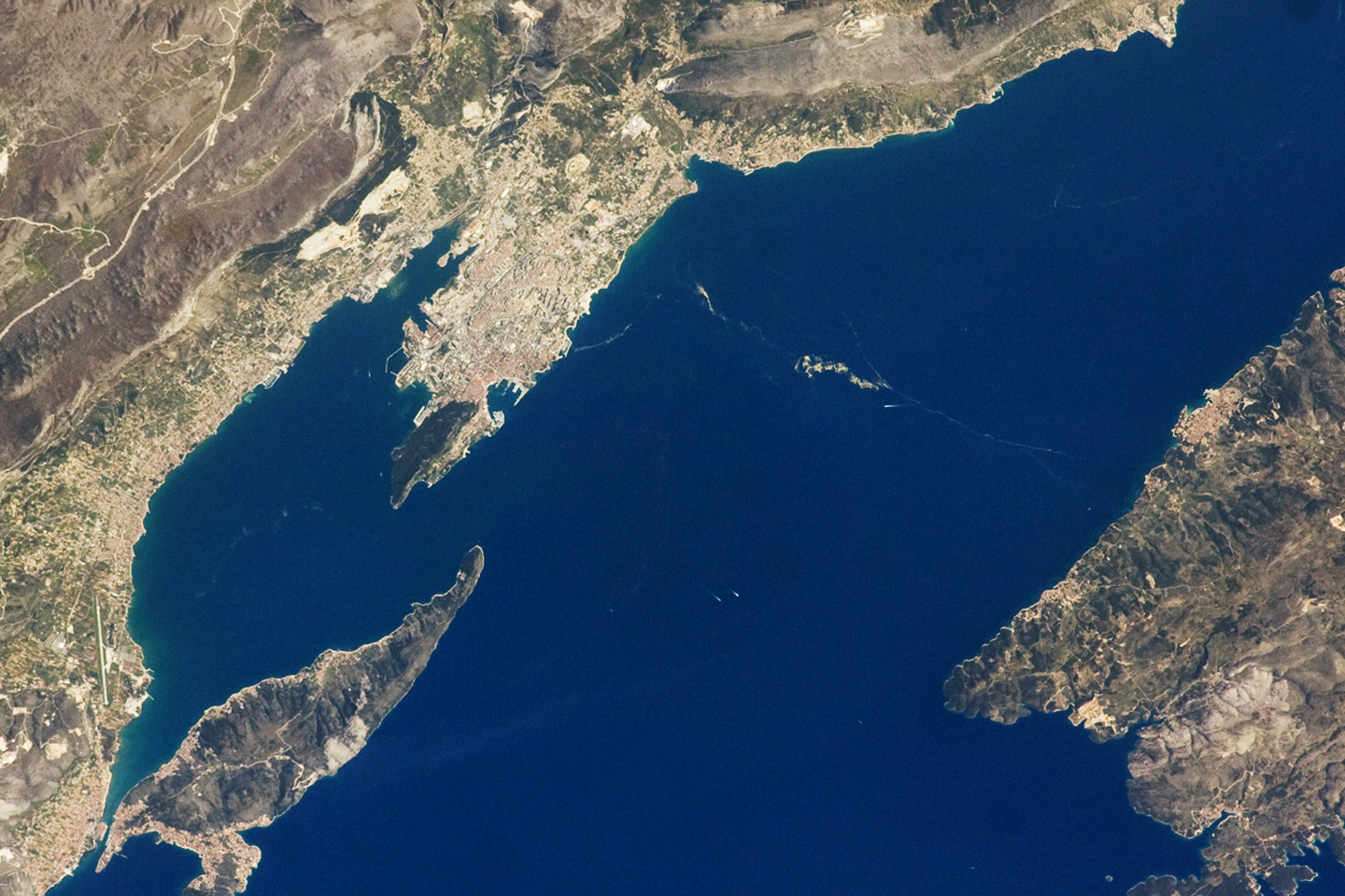 In this image, a thin zone of disturbed water (tan patches) marking a water boundary appears in the Adriatic Sea between Split and the island of Brač. It may be a plankton bloom or a line of convergence between water masses, which creates rougher water.